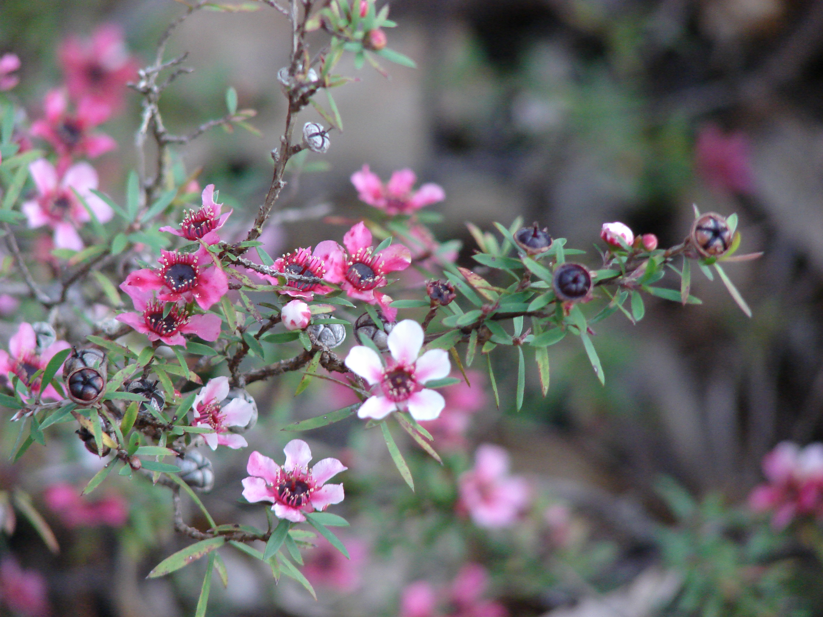 Leptospermum scoparium (flowers leaves and fruit). Location: Lanai, Munro Trail